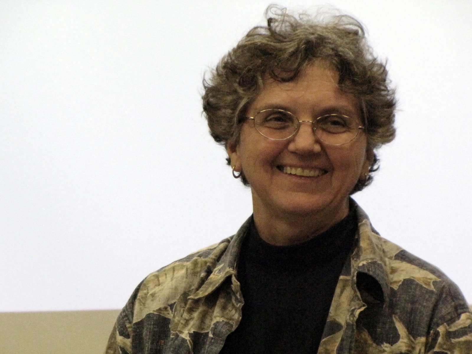 Digital Compositae Data Workshop, Encyclopedia of Life Biodiversity Synthesis Center, Field Museum, Chicago, 15-17 April 2010